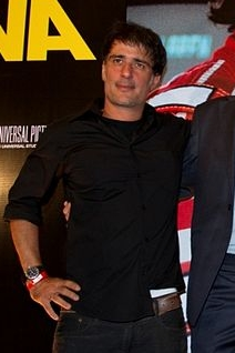 Antônio Pinto at the Senna movie premier.